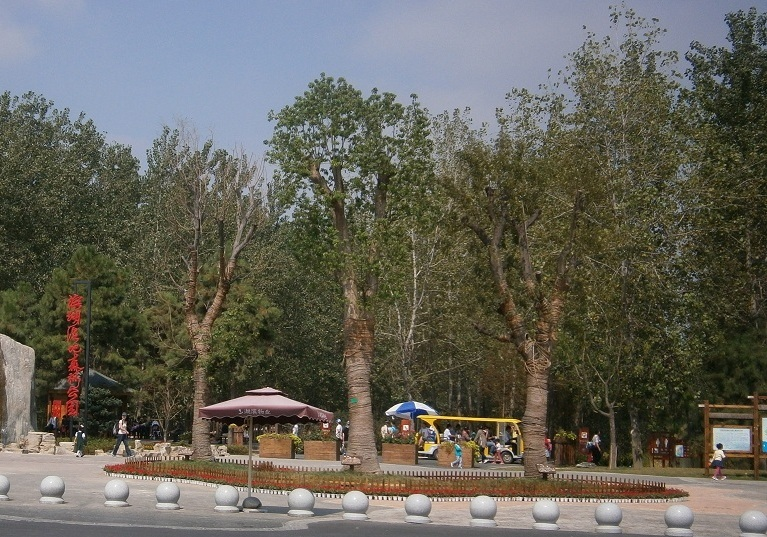 The gate of Hefei Binhu Wetland National Forest Park